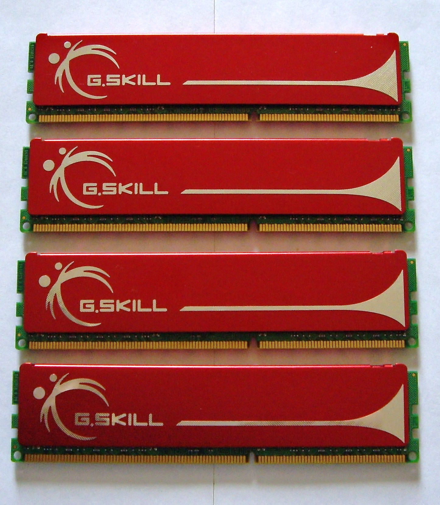 8go of DDR3 G.SKILL Ram